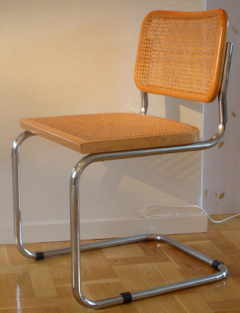 Cane-bottomed cantilever chair designed by Marcel Breuer